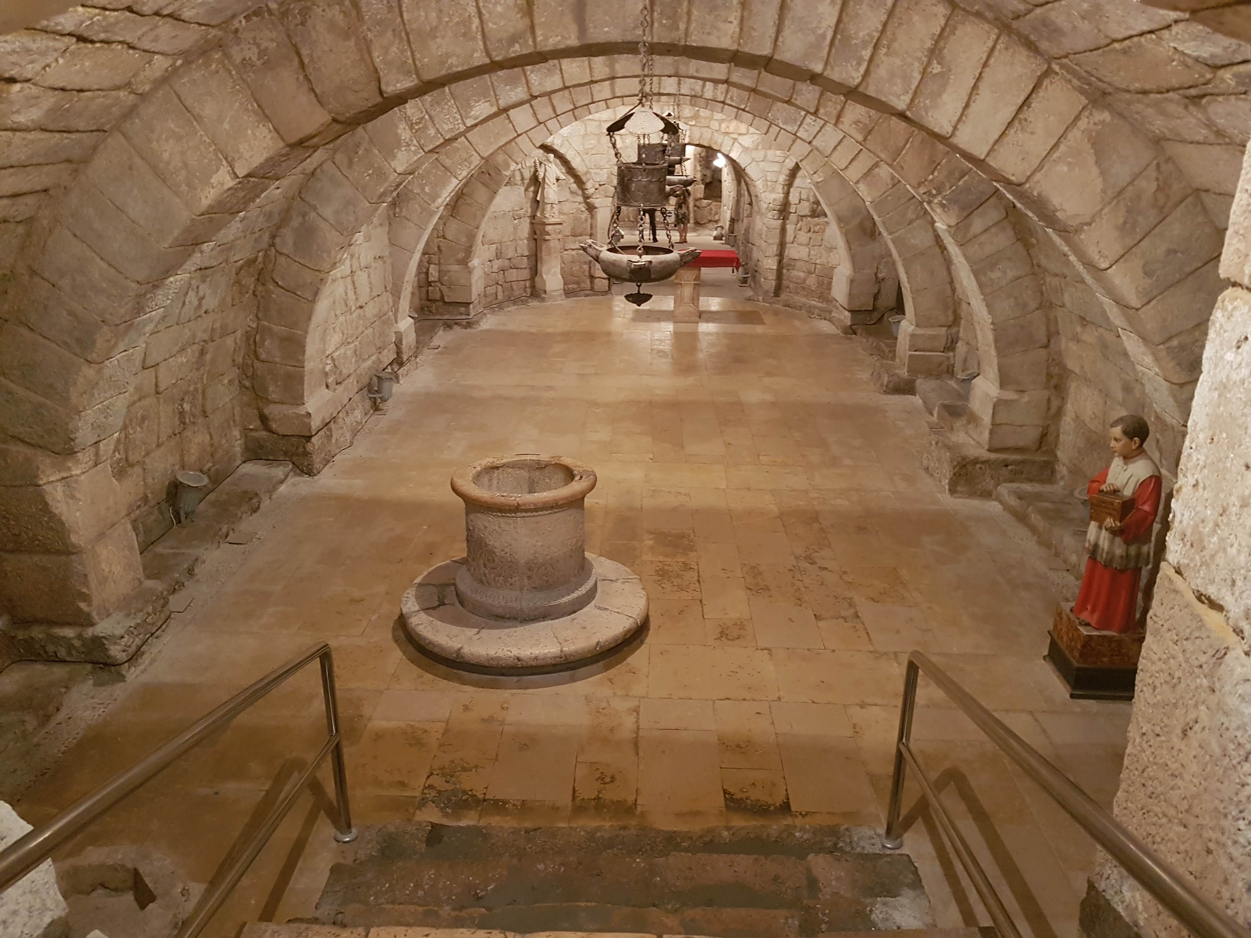 Crypt of San Antolín, Cathedral_of_Saint Antoninus (Palencia, Castile and Leon).